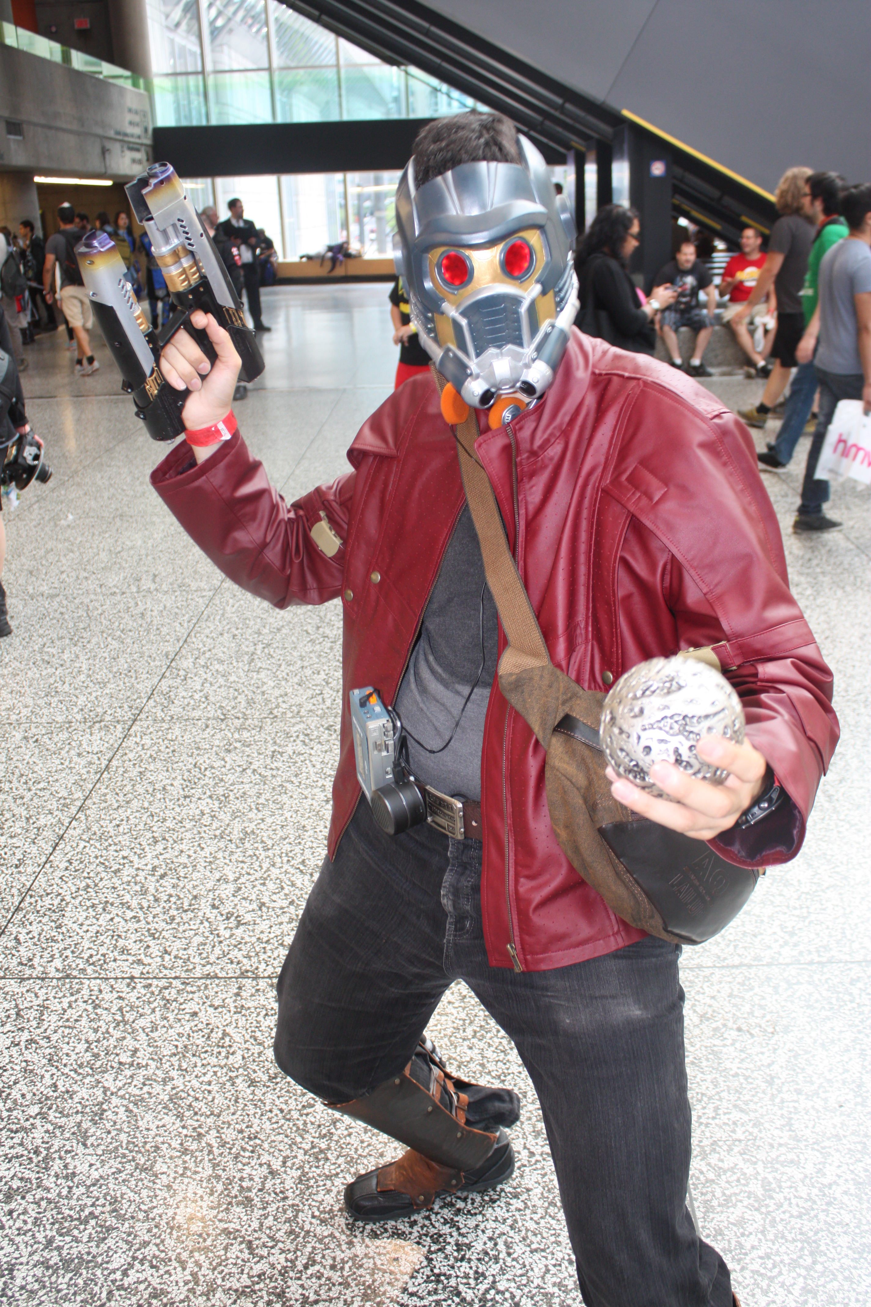 Cosplay on day three of Montreal Comiccon 2015.